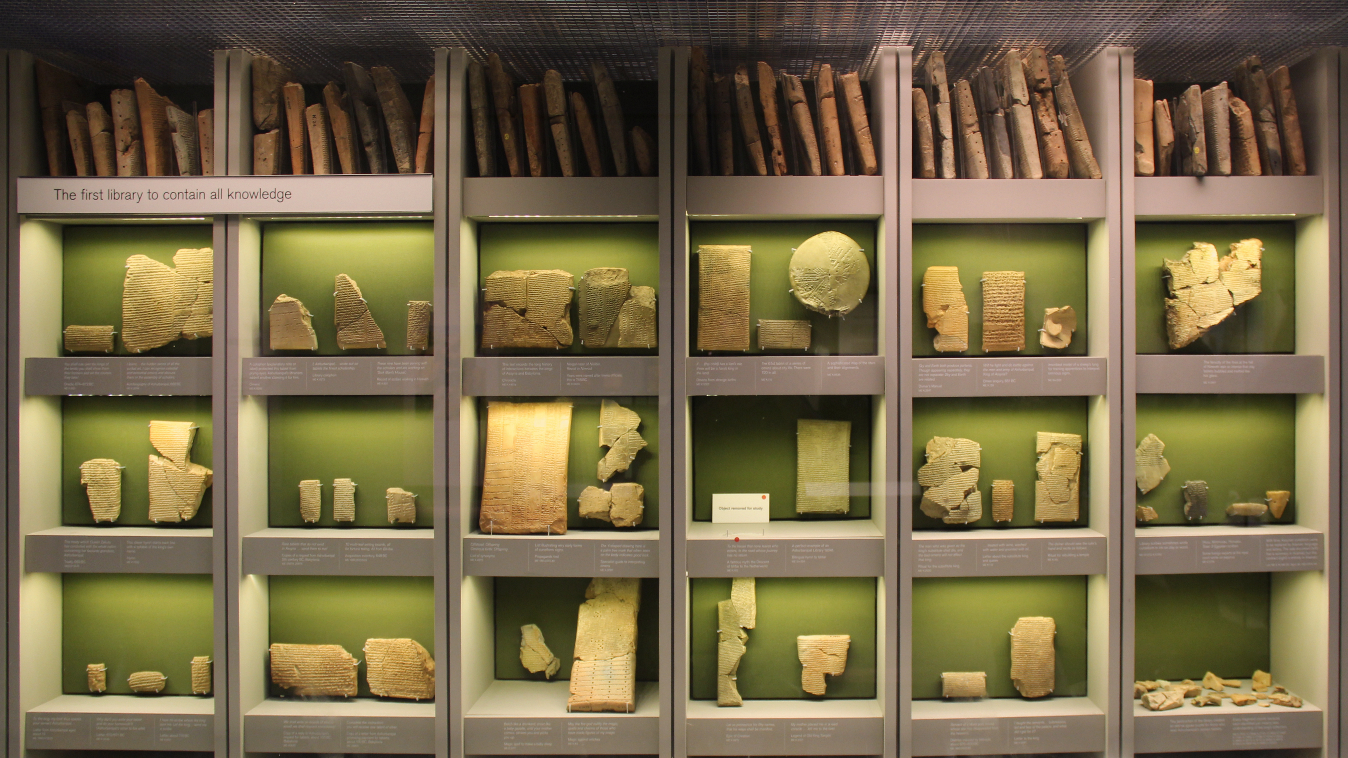 Library of Ashurbanipal Mesopotamia 1500-539 BC Gallery, British Museum, London, England, UK. Complete indexed photo collection at .